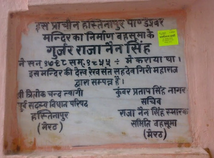 Gurjar Raja Nain Singh was born on 12st november, 1746 in Nagar clan of Gurjars at Behsuma, Uttar Pradesh.His father was Raja Gulab Singh Nagar and mother was queen Maaya.He is famous for reconstructing fort ParikshitGarh and Old Pandeshwar temple of Hashtinapur.